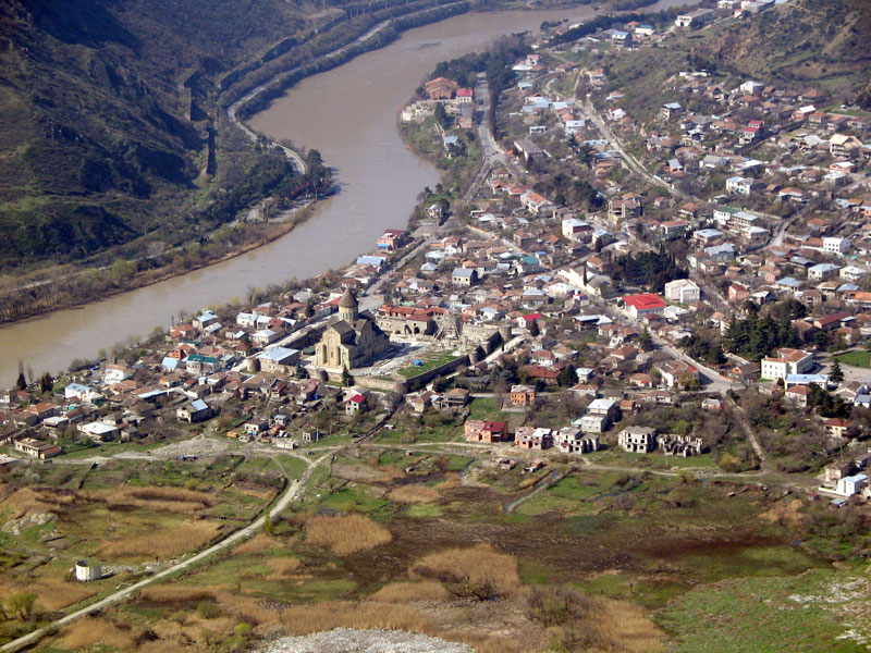 An aerial view of the Sveti-Tskhoveli cathedral in Mtskheta, Georgia.